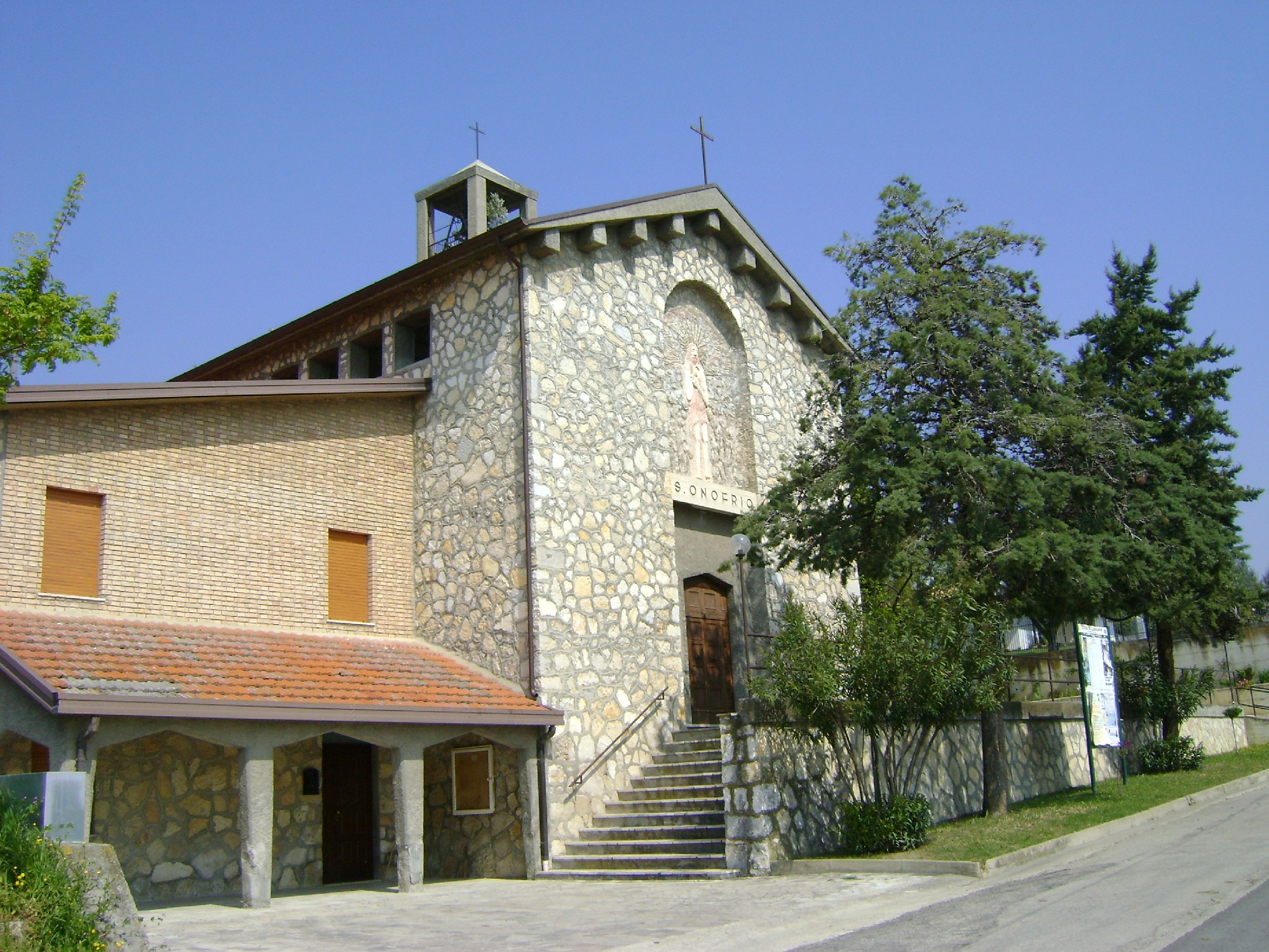 The church of Saint Onofrio, Lanciano, province of Chieti